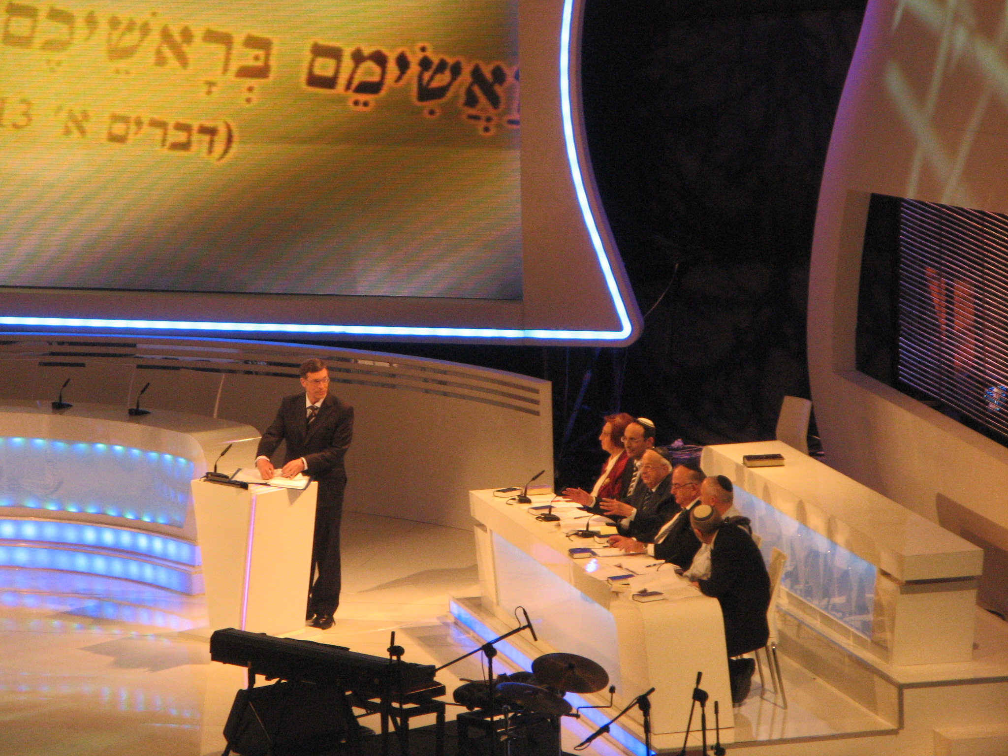 Bible quiz judges 2010